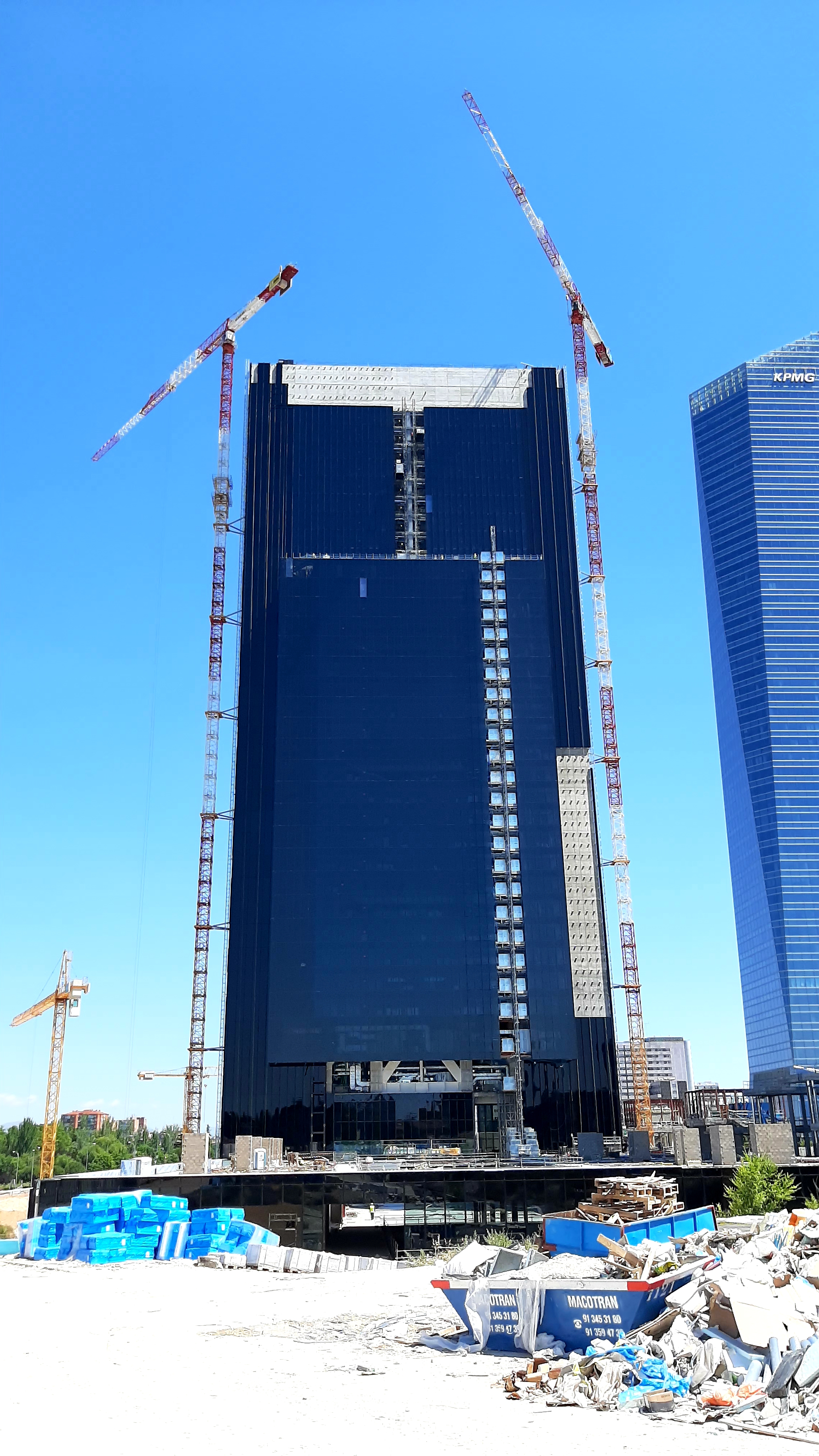 Current state of the 5th Tower Caleido in Madrid. The building will be the new campus of the IE University. It will also have shopping areas on the basements, green areas and a medical center (Quirón Salud) specially related to sports.